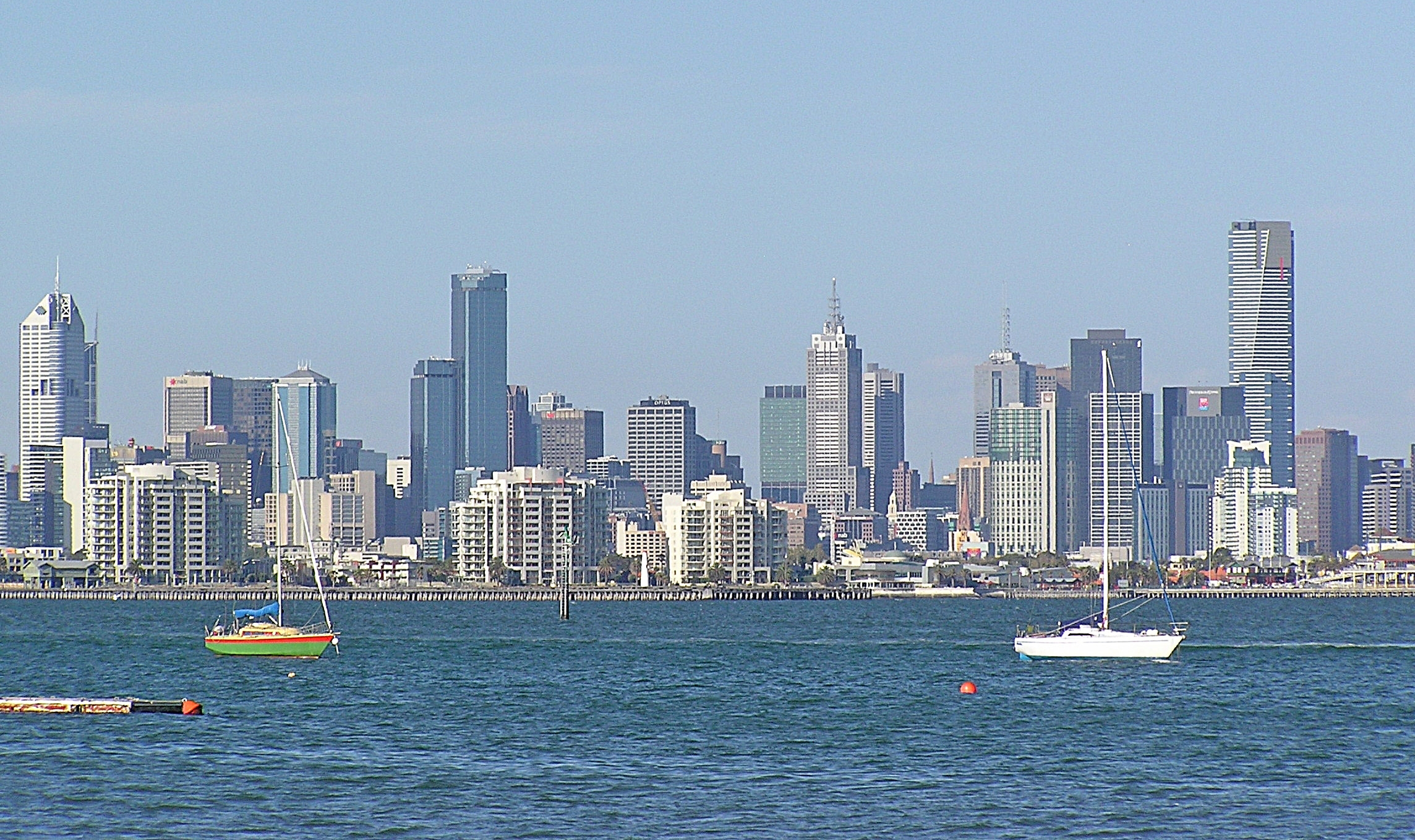 Looking across Hobsons Bay towards the Melbourne central business district